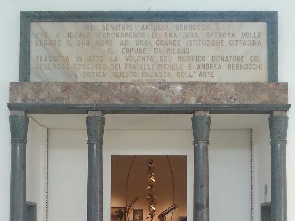 Triennale of Milan, second floor, commemorative architecture building in Honor of Bernocchi family donor of the art, fashion and design palace